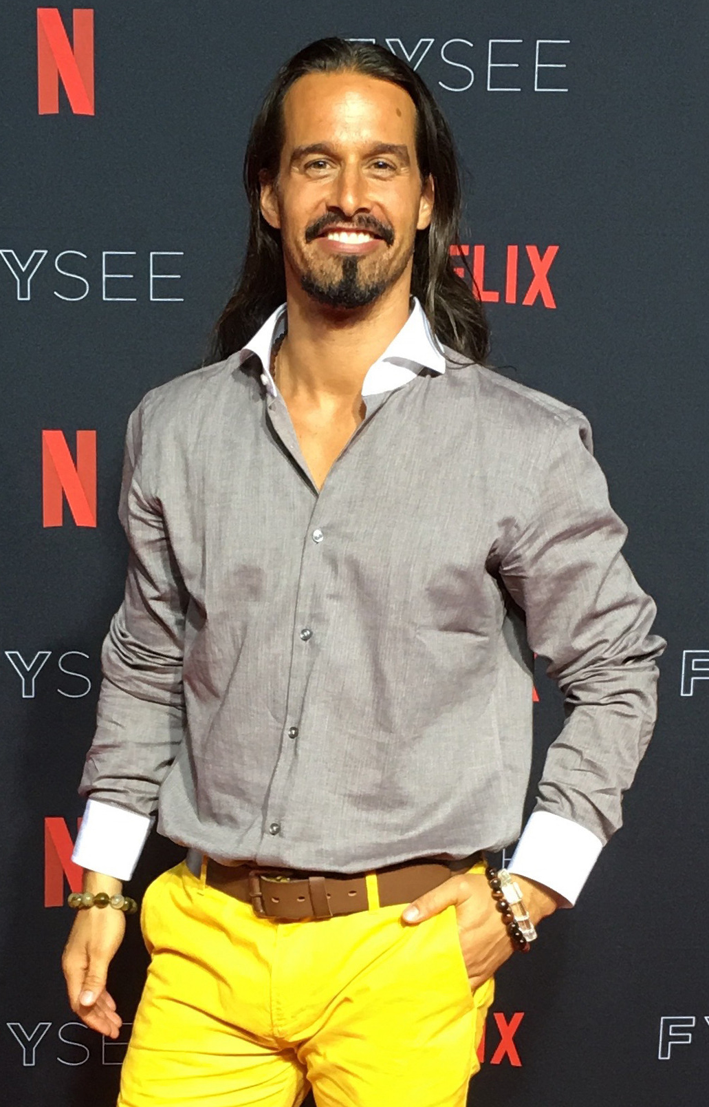 Netflix FYSEE